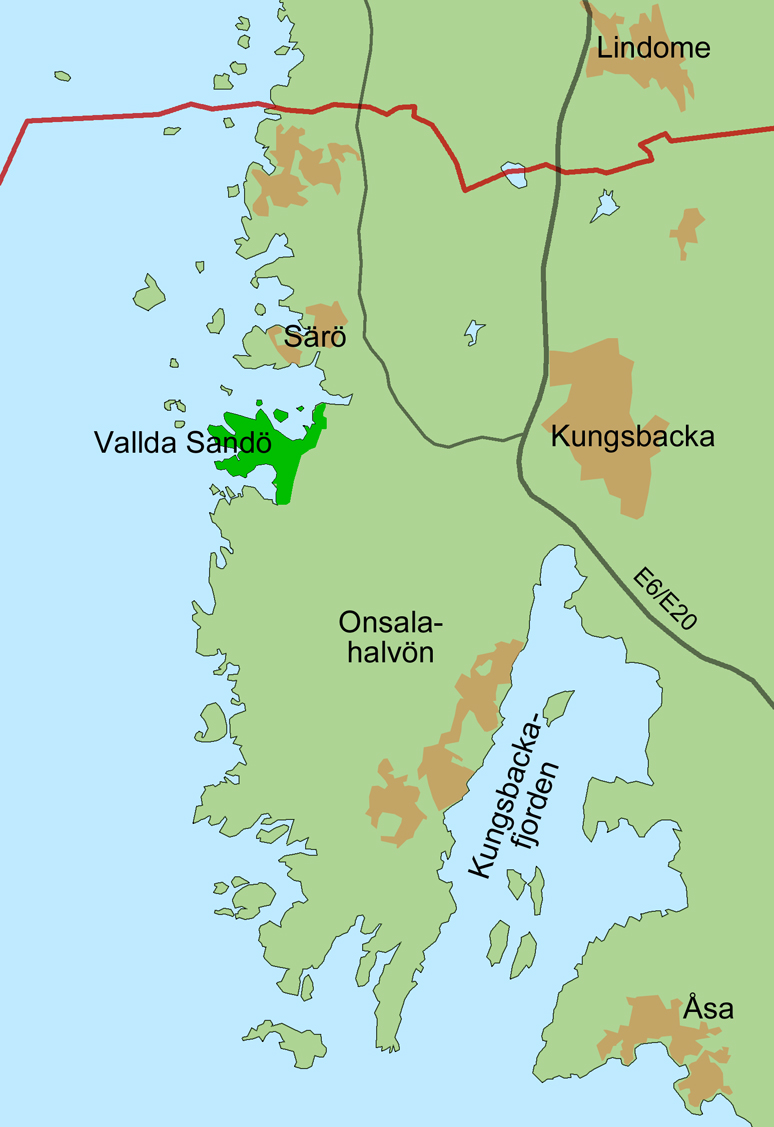 Simple map over the Onsala peninsula showing the lokation of Vallda Sandö and Kungsbacka, Kungsbacka municipality, northern Halland, Sweden.